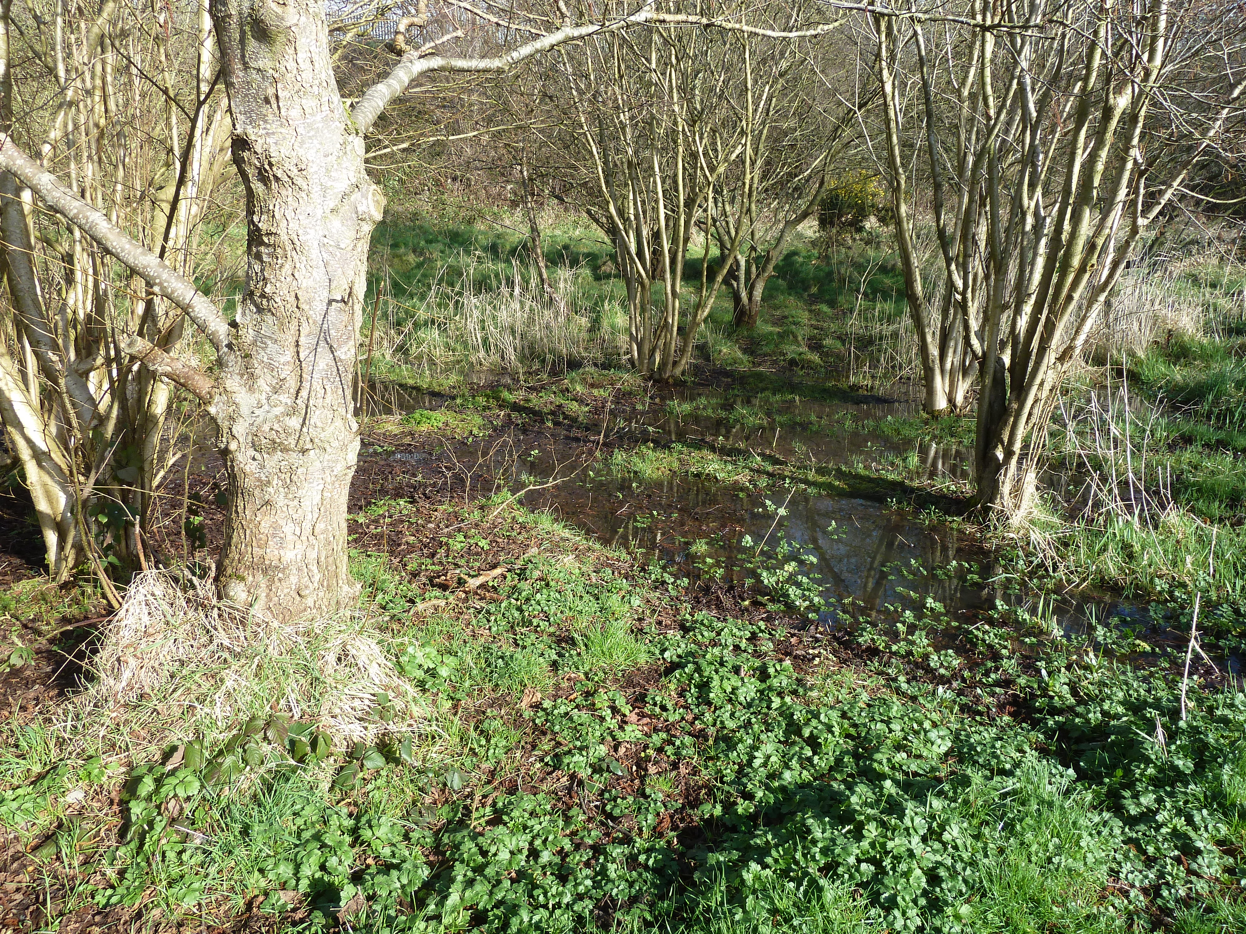 Hilden, Co. Antrim, Ireland late March 2014